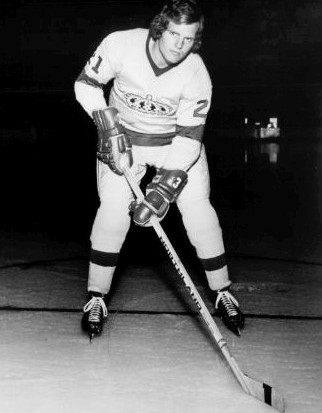 Photo of Barry Long as a member of the Los Angeles Kings.